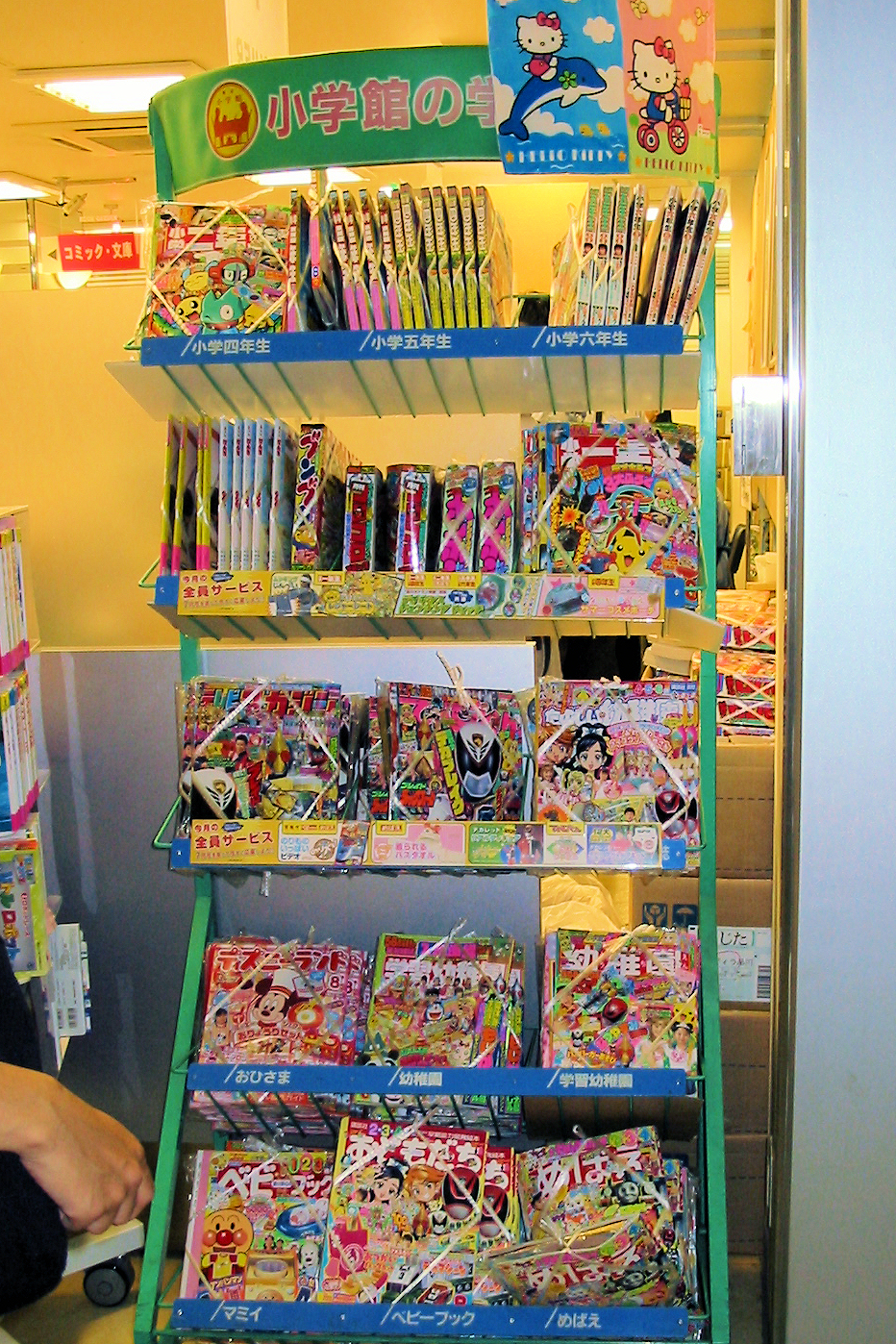 It was at Shinagawa station, if I remember well.